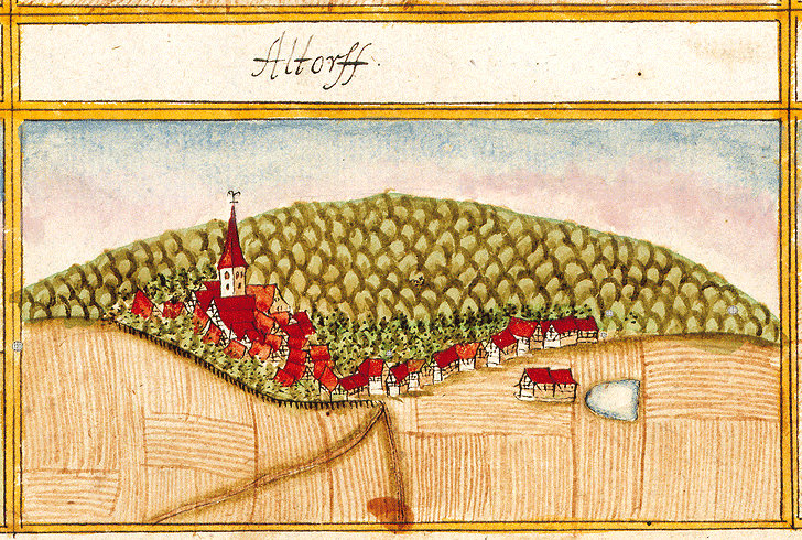 View of Altdorf from the forest register books created by Andreas Kieser